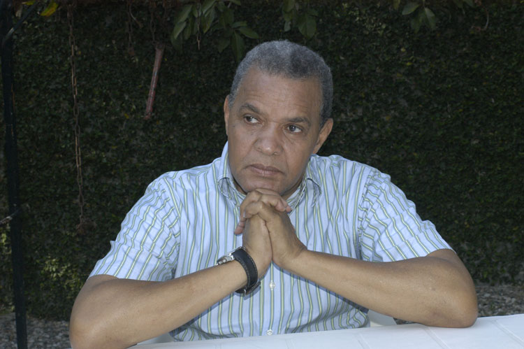 Picture of Julio Samuel Sierra